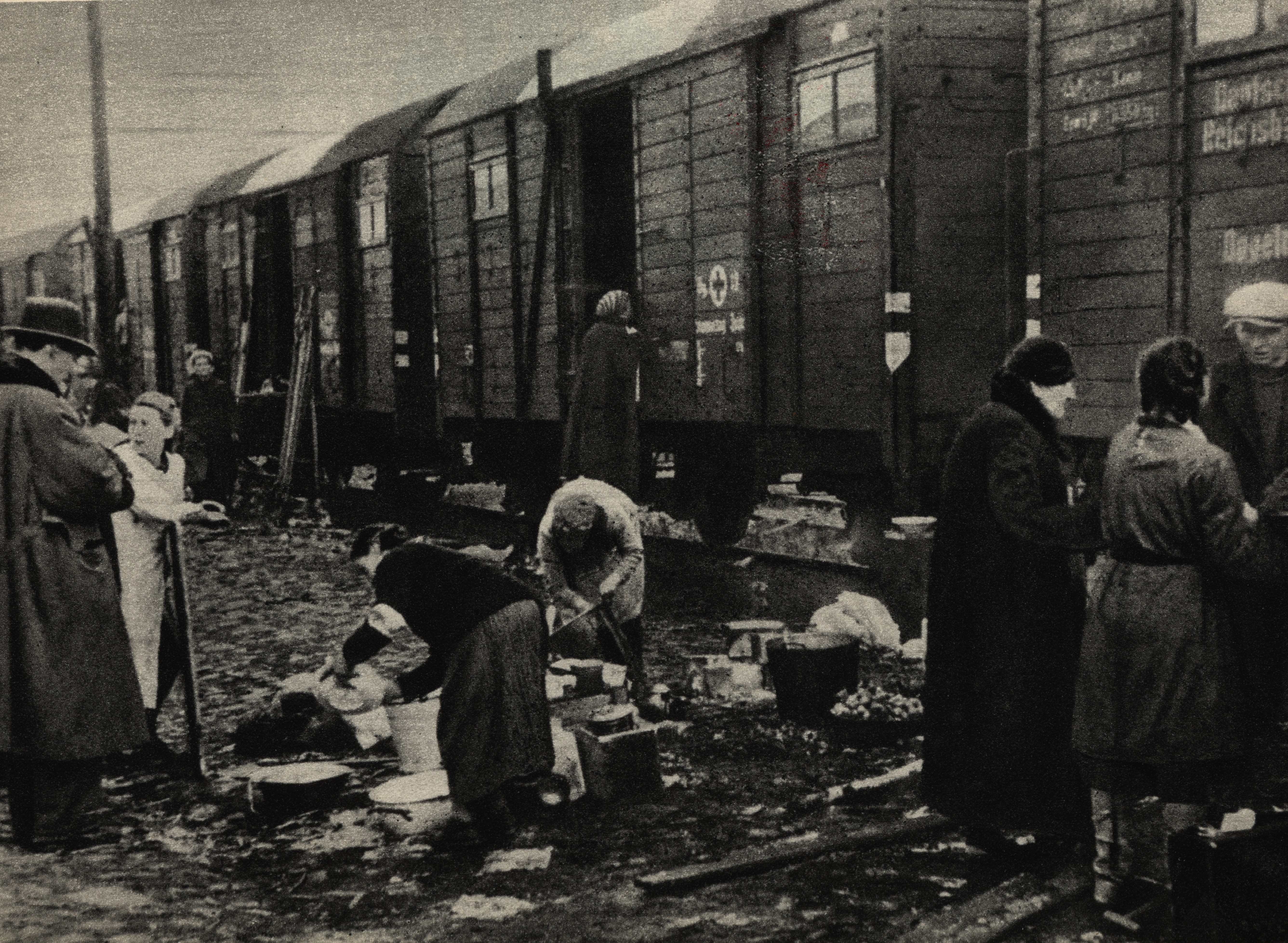 Warsaw Uprising - German Transit Camp in Pruszków (Dulag 121). Transport with expelled Polish civilians leaves the camp.